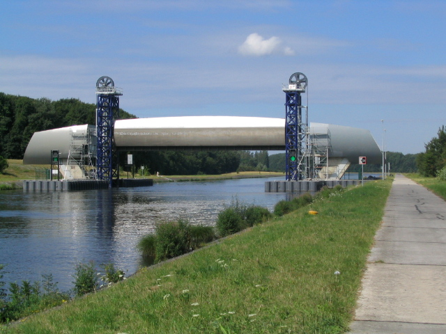 Stop or safety lock on the canal du Centre, Belgium